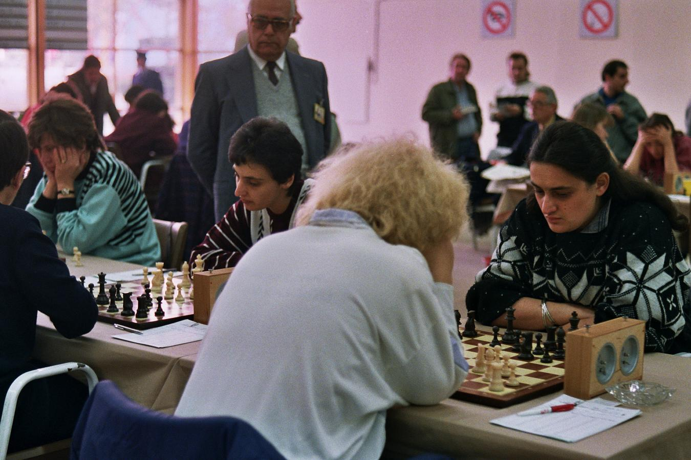 Team of the Soviet Union, Chess Olympiad 1988 in Thessaloniki, Photographer Gerhard Hund.